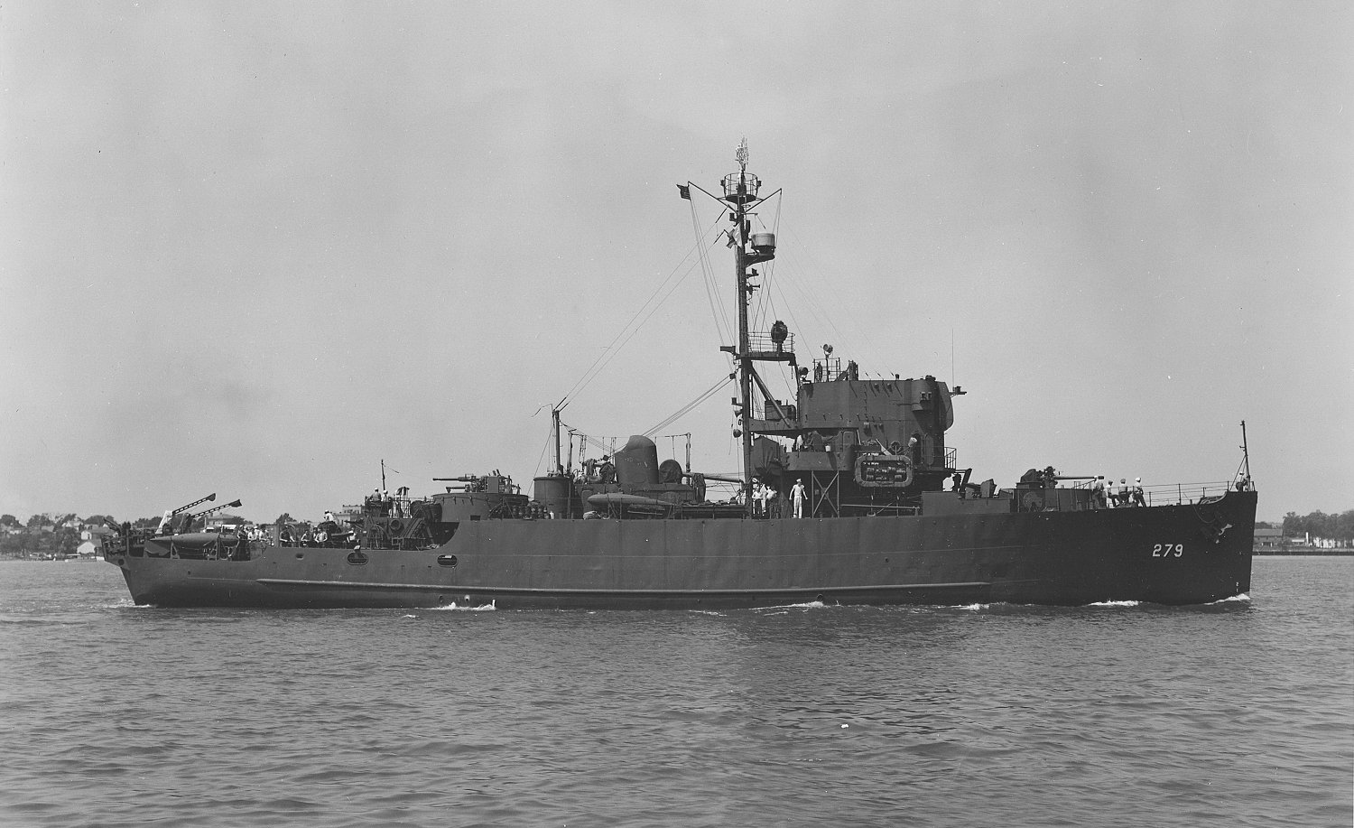 16 June 1945 Norfolk Navy Yard Starboard broadside view U.S. Navy photo 10748(45)